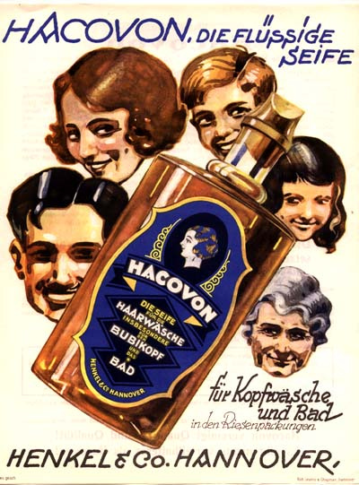 advertising dating back to 1920